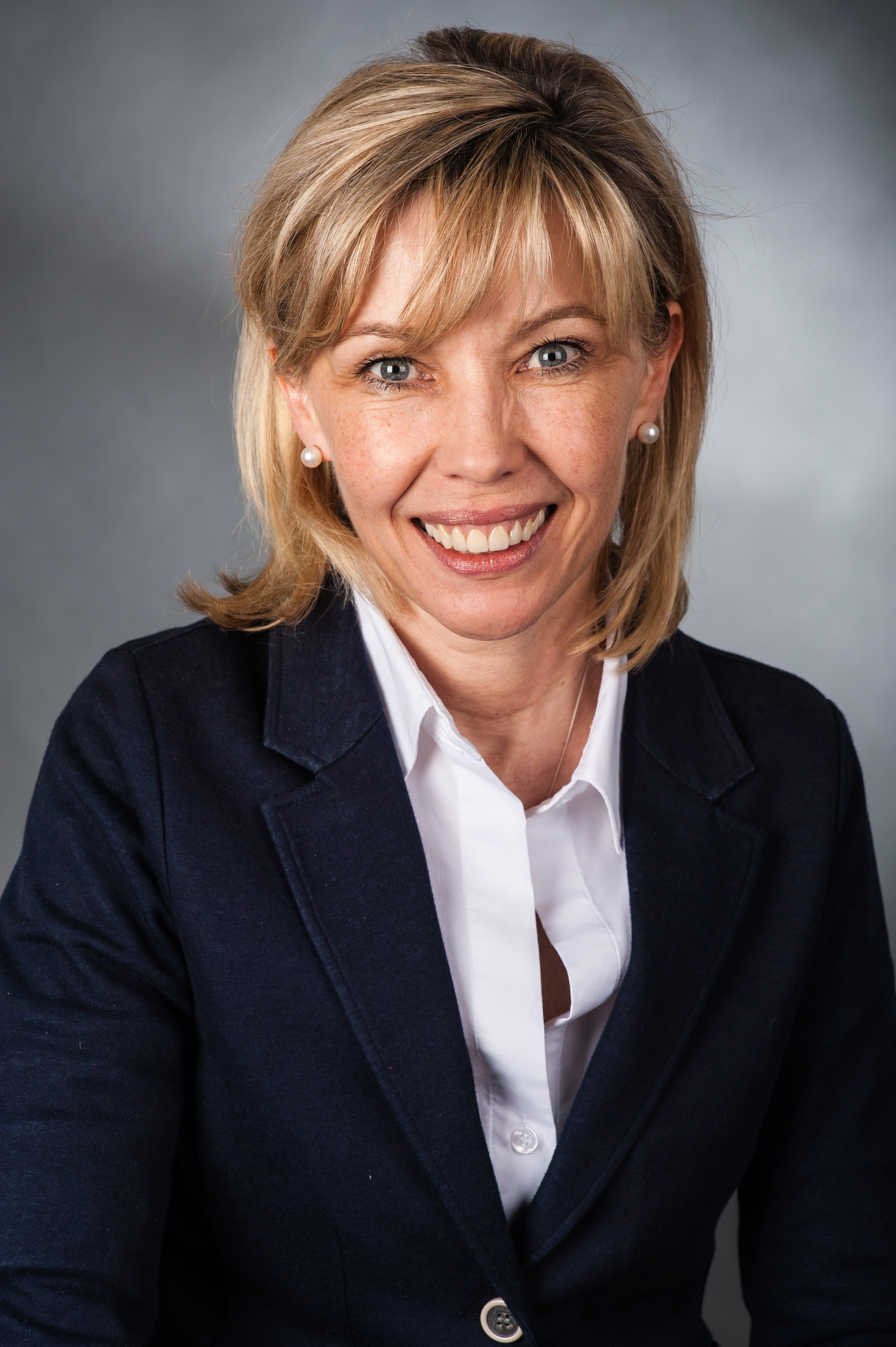 Wikipedia im Landtag – Niedersachsen 17. bis 18. April 2013 in Hannover Personality rights warningAlthough this work is freely licensed or in the public domain, the person(s) shown may have rights that legally restrict certain re-uses unless those depicted consent to such uses. In these cases, a model release or other evidence of consent could protect you from infringement claims.